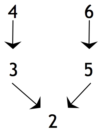 An example of a diagram using Beardsley's procedure.